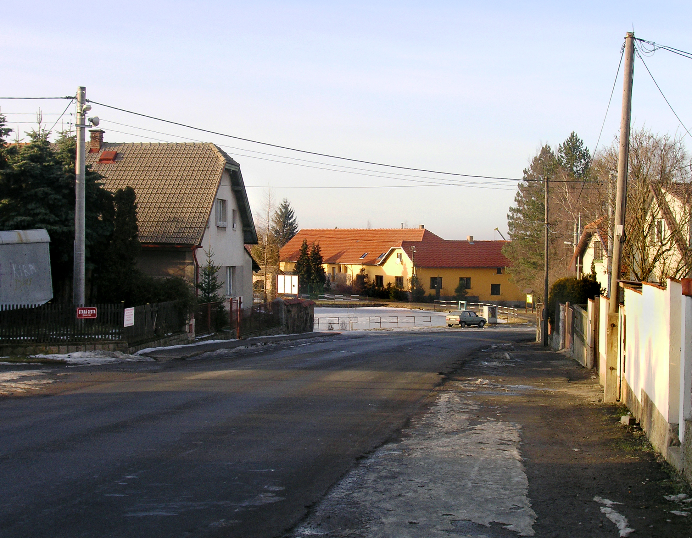 Common at Svojetice, Czech Republic